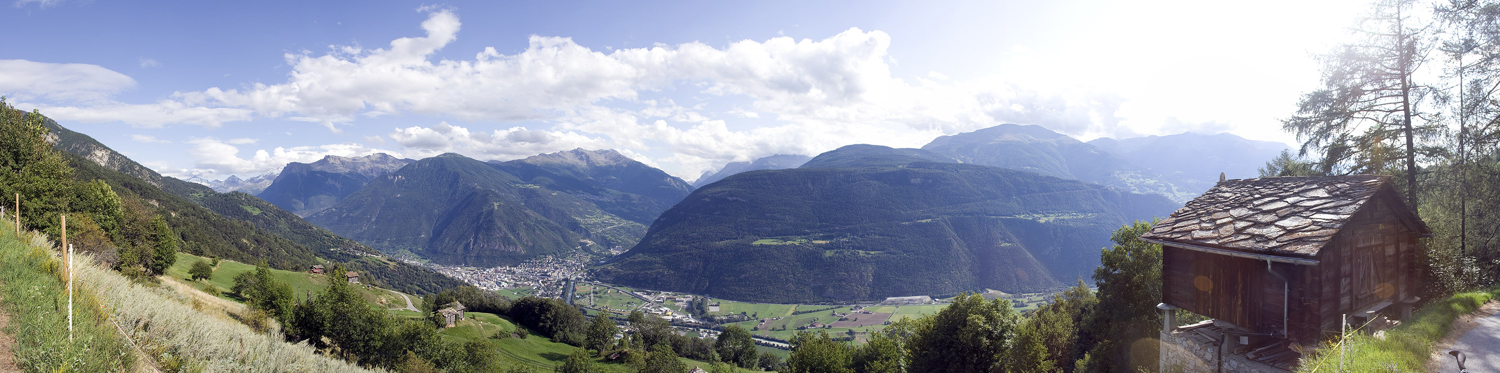 Panorama of Visp